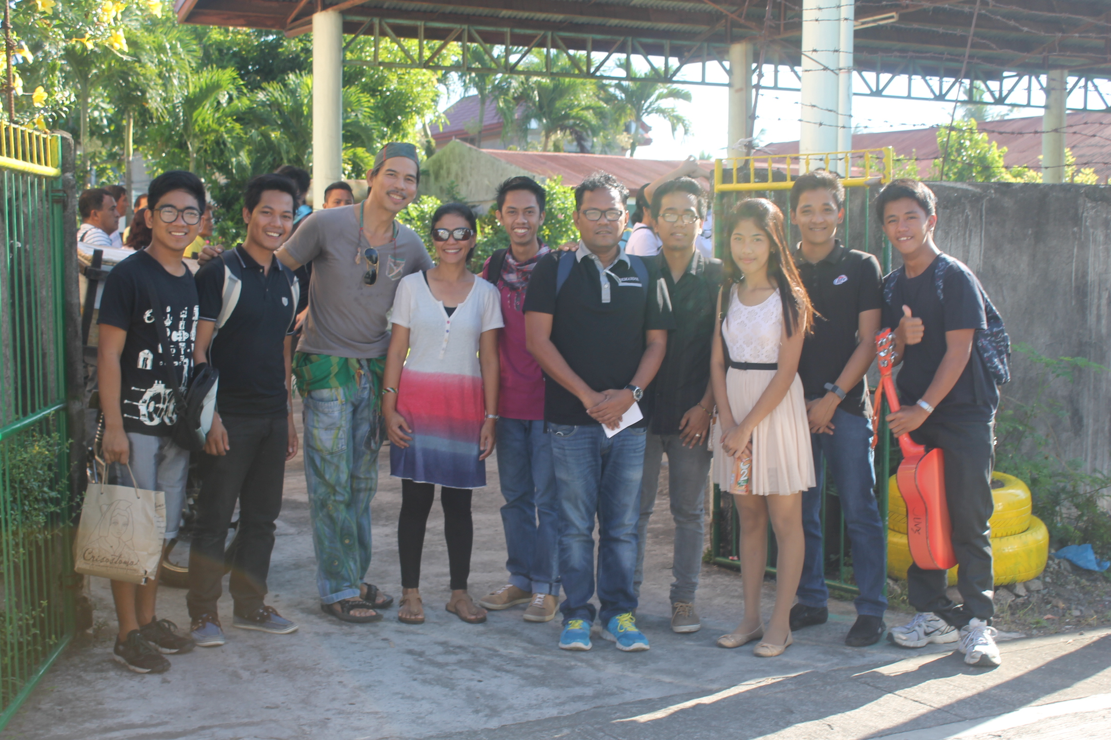 Parasurat Bikolnon at SULOG: Sumaro sa Salog event